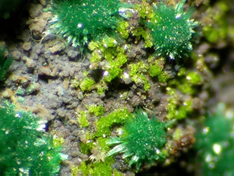 Molybdofornacite Locality: San Pablo Mine, Inca de Oro, Chañaral Province, Atacama Region, Chile Clusters of yellowish-green crystals of Molybdofornacite together with Malachite. Field of view 4 mm. Specimen and photo Leon Hupperichs.